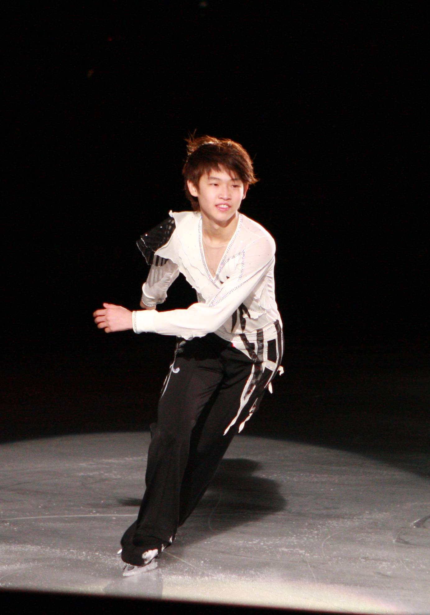 Kim Min-Seok (KOR) at the 2009 Festa On Ice.